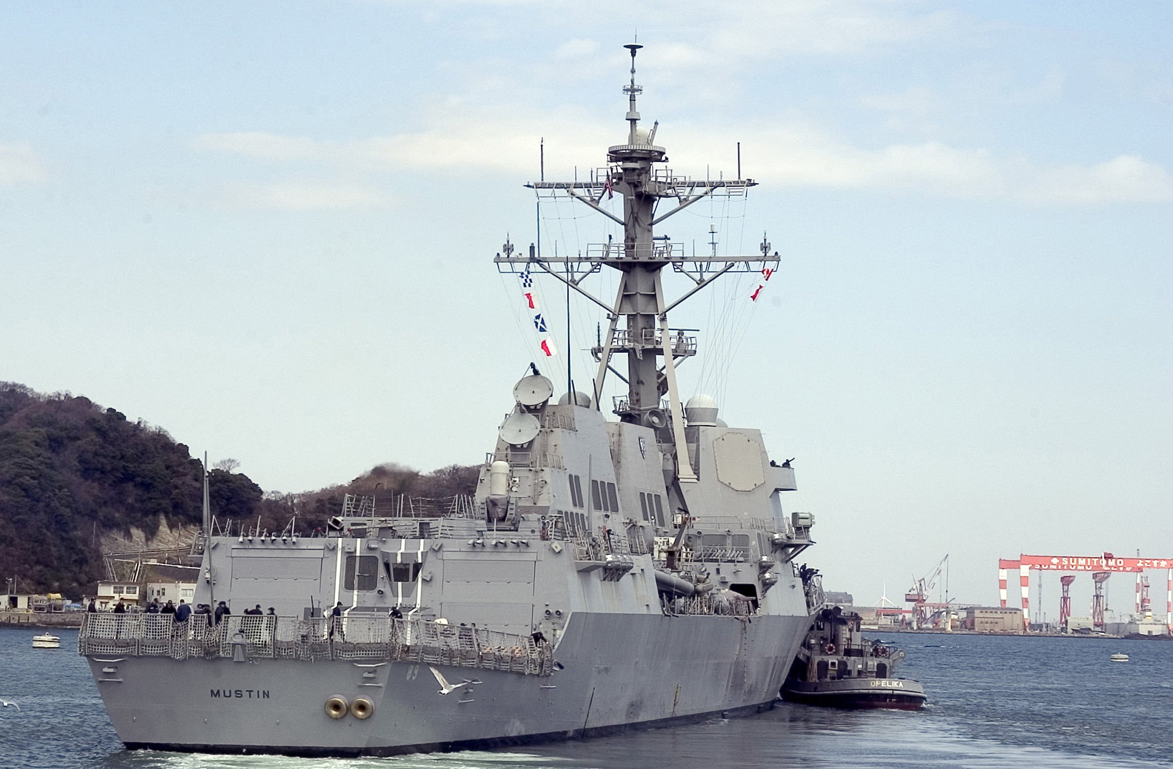 The large harbor tug USS Opelika (YTB 798) helps guide the Arleigh Burke-class guided-missile destroyer USS Mustin (DDG 89) as it gets under way from Commander Fleet Activities Yokosuka, Japan, March 19, 2007. (U.S. Navy photo by Mass Communication Specialist Seaman Bryan Reckard) (Released) Location: YOKOSUKA, KANAGAWA JAPAN 3